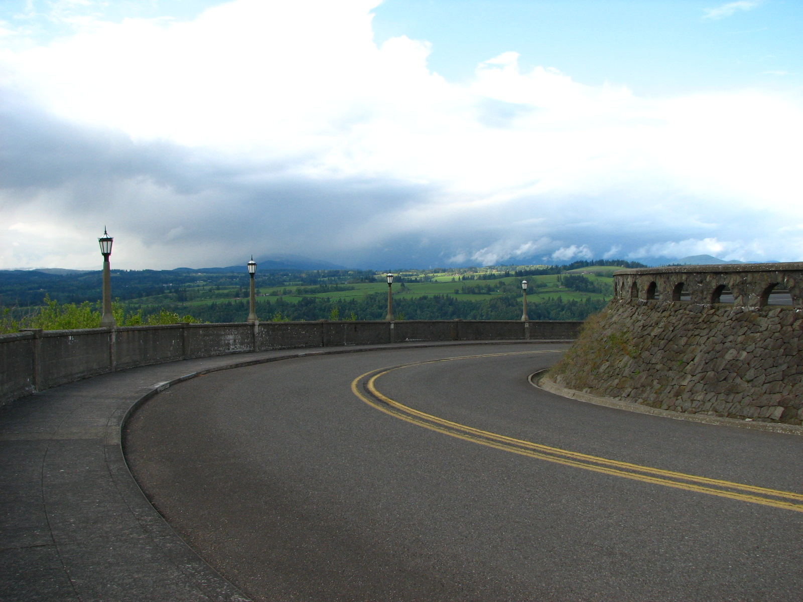 The Historic Columbia River Highway at Crown Point, Oregon, United States, looking north across the Columbia River Gorge to Washington.